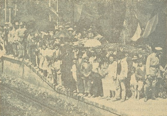 Inauguration ceremony of the electric trains at the Cascais Railway, in Portugal, on the 15th August 1926. This image was originally published in the Gazeta dos Caminhos de Ferro No. 928, of the 16th August 1926, and scanned by the Hemeroteca Municipal de Lisboa.